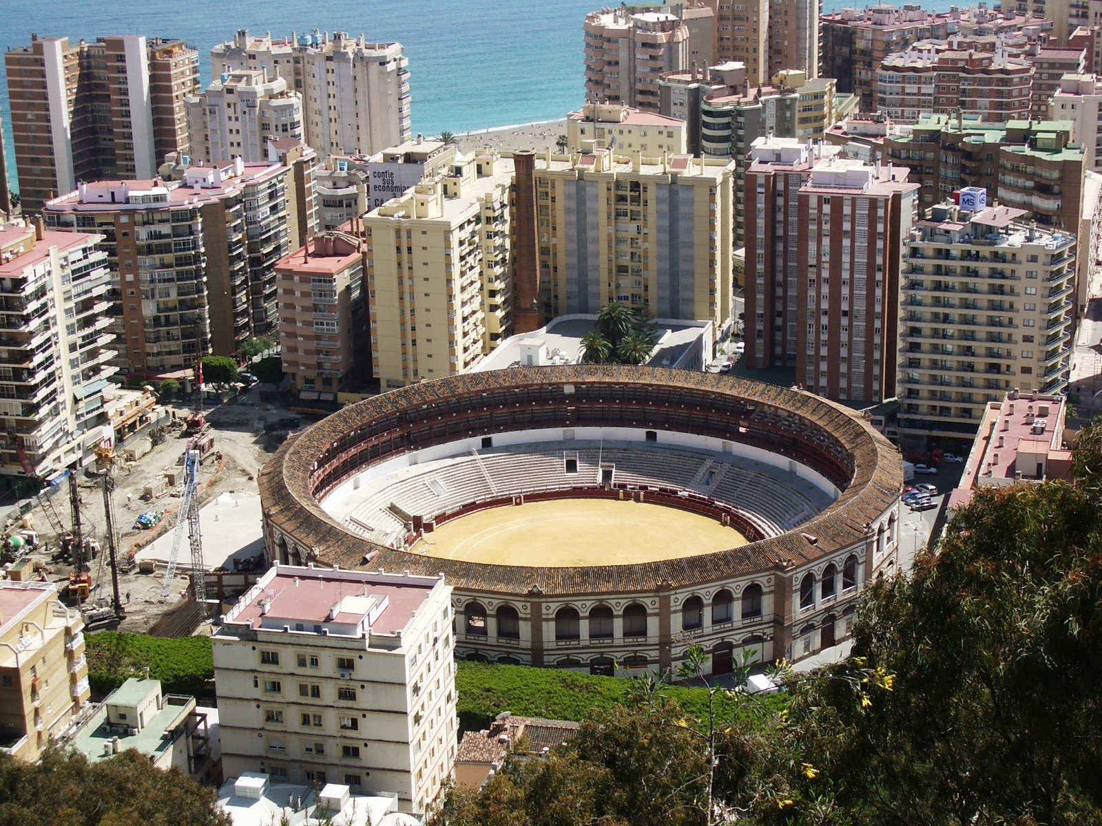 Plaza de Toros (bullring) in Malaga, Spain.